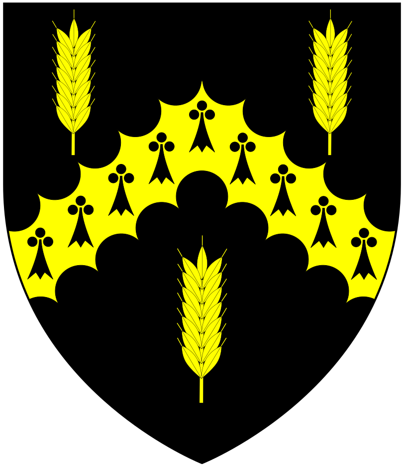 Arms of Bennett of Whiteway in the parish of Chudleigh, Devon: Sable, a chevron engrailed erminois between three ears of wheat or (Vivian, Lt.Col. J.L., (Ed.) The Visitations of the County of Devon: Comprising the Heralds' Visitations of 1531, 1564 & 1620, Exeter, 1895, p.72)